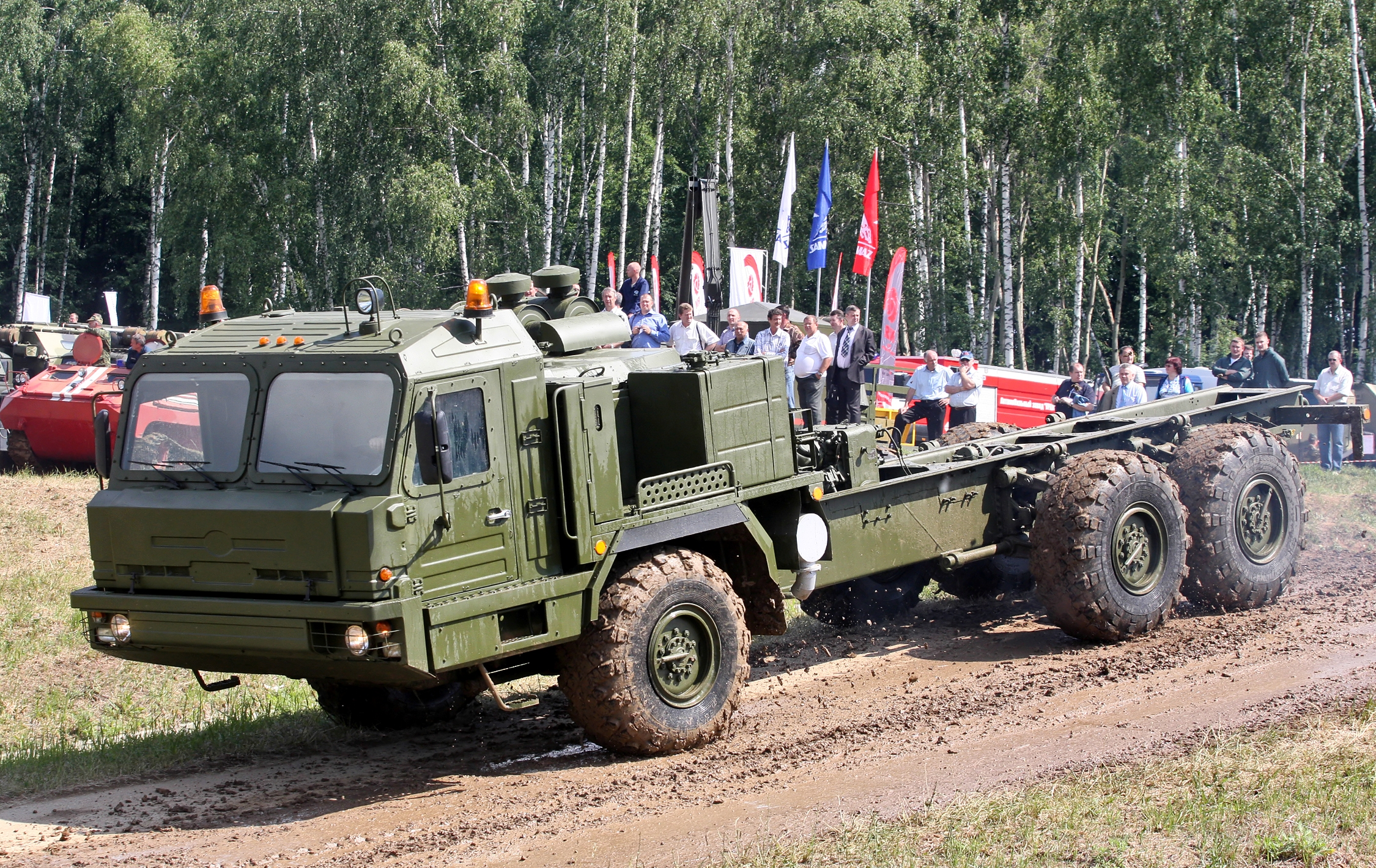 The BAZ-69092-012 special wheeled chassis for the S-400 system.